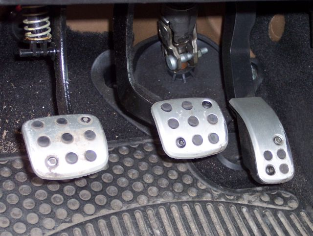 Pedals of a Peugeot 206 (Interieur of a Peugeot 2006, elsewhere)